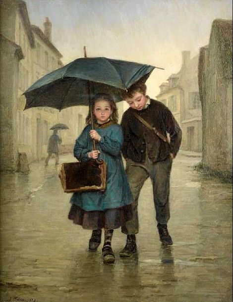 Pierre Édouard Frère: Going to school